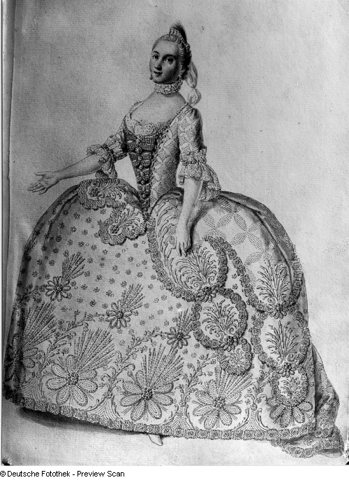 Teresa Albuzzi-Todeschini als Aristea opera "L'Olimpiade" composed by Johann Adolph Hasse. Premiere: Dresden Court Theatre 16 February 1756. Costume designer: Servandoni Drawing by: F. Ponte From: Vestiarium der Oper "L'Olimpiade". Dresden: Kupferstich-Kabinett Ca 150